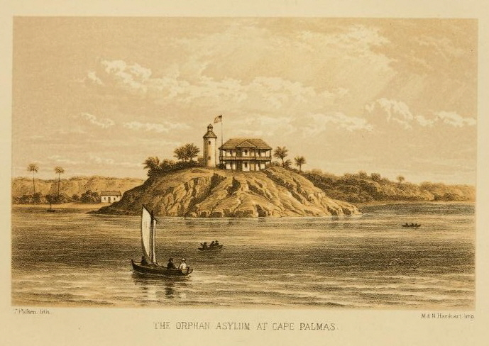 The Orphan Asylum at Cape Palmas, a part of the Hoffman Missionary Station.